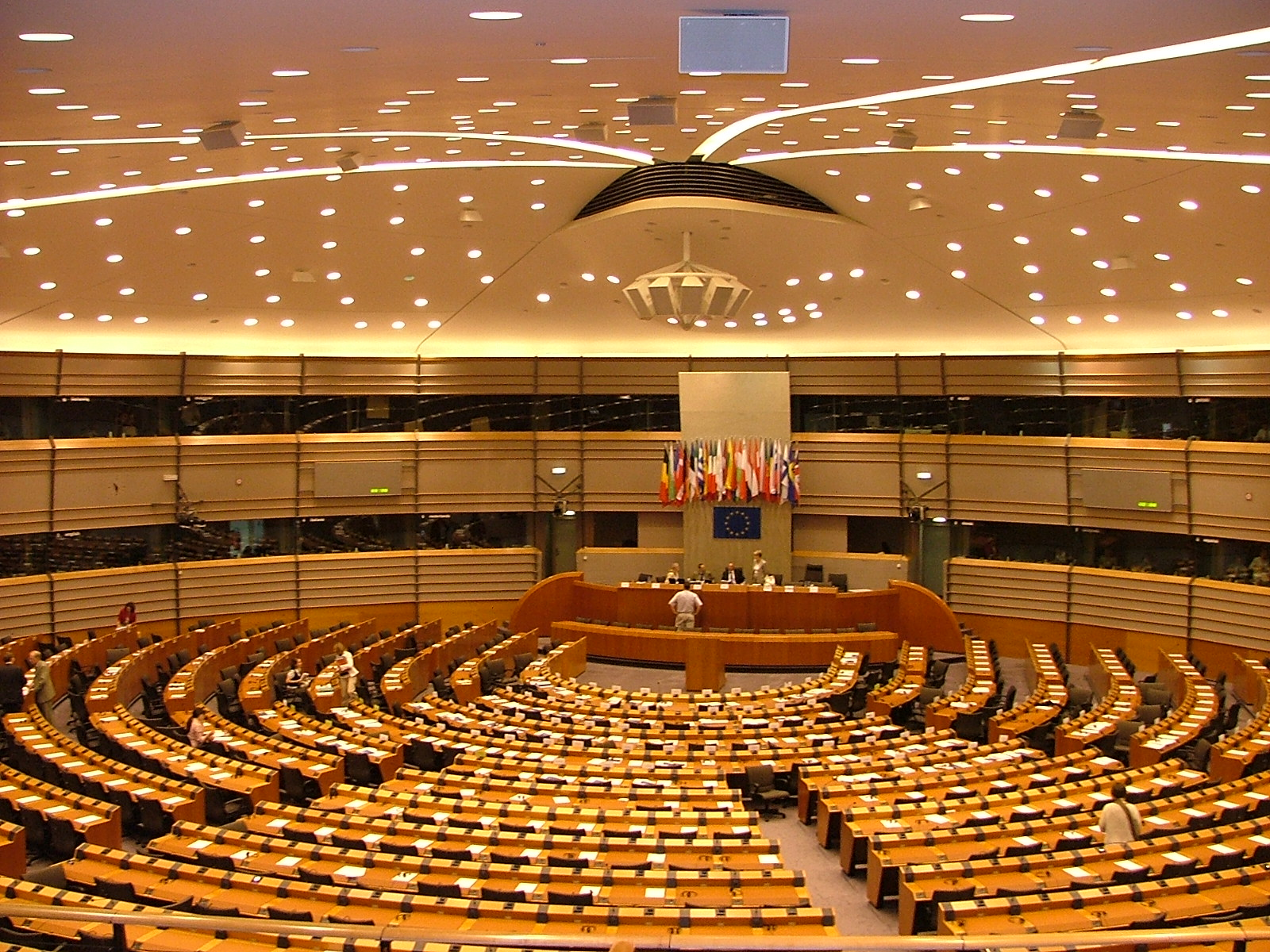 Belgium, Bruxelles - Brussel, European Parliament. The hemicycle empty.